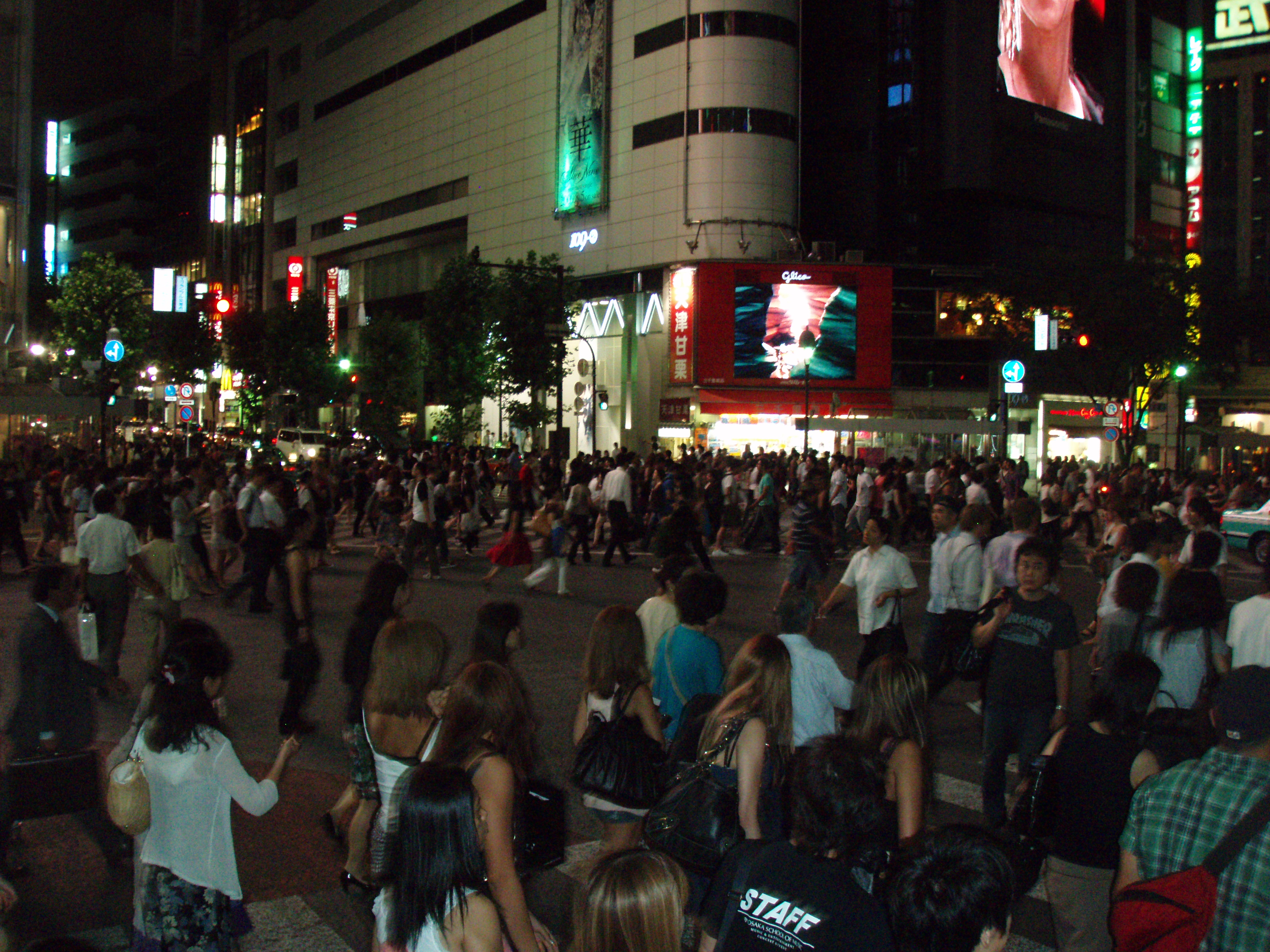 Busiest crosswalk in the world Tokyo Japan